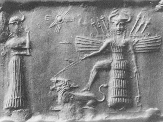 This image is an accurate, photographic representation of an ancient Akkadian cylindrical seal depicting the goddess Inanna/Ishtar and her sukkal Ninshubur. The seal originates from the Akkad Period and was created sometime circa 2334-2154 B.C. This seal is currently housed in the Oriental Institute at the University of Chicago.